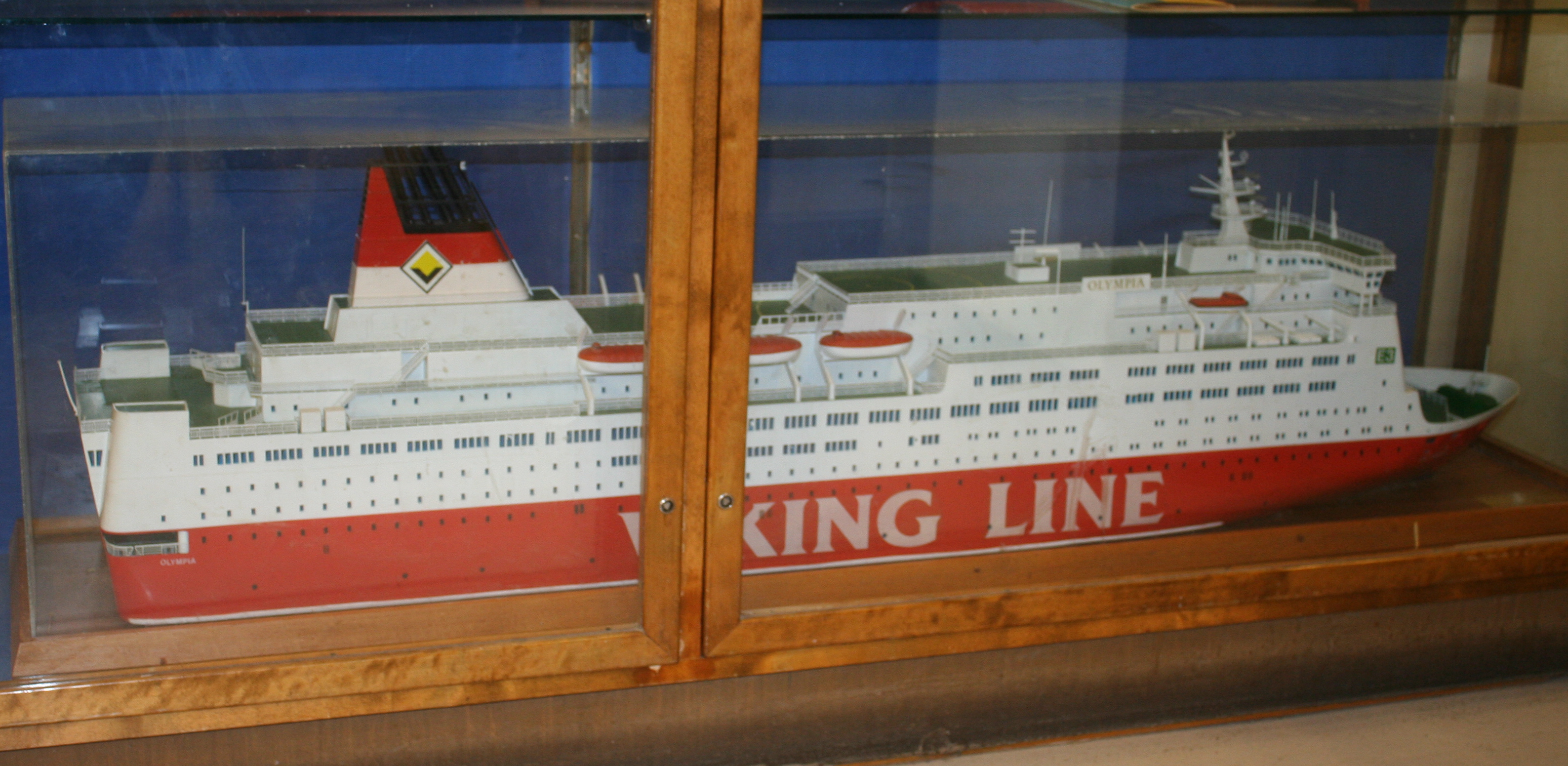 A model of the cruiseferry MS Olympia. The original ship was built 1986 for Rederi AB Slite and used in Viking Line service until 1993. The model is on display in the Stockholm Toy Museum.